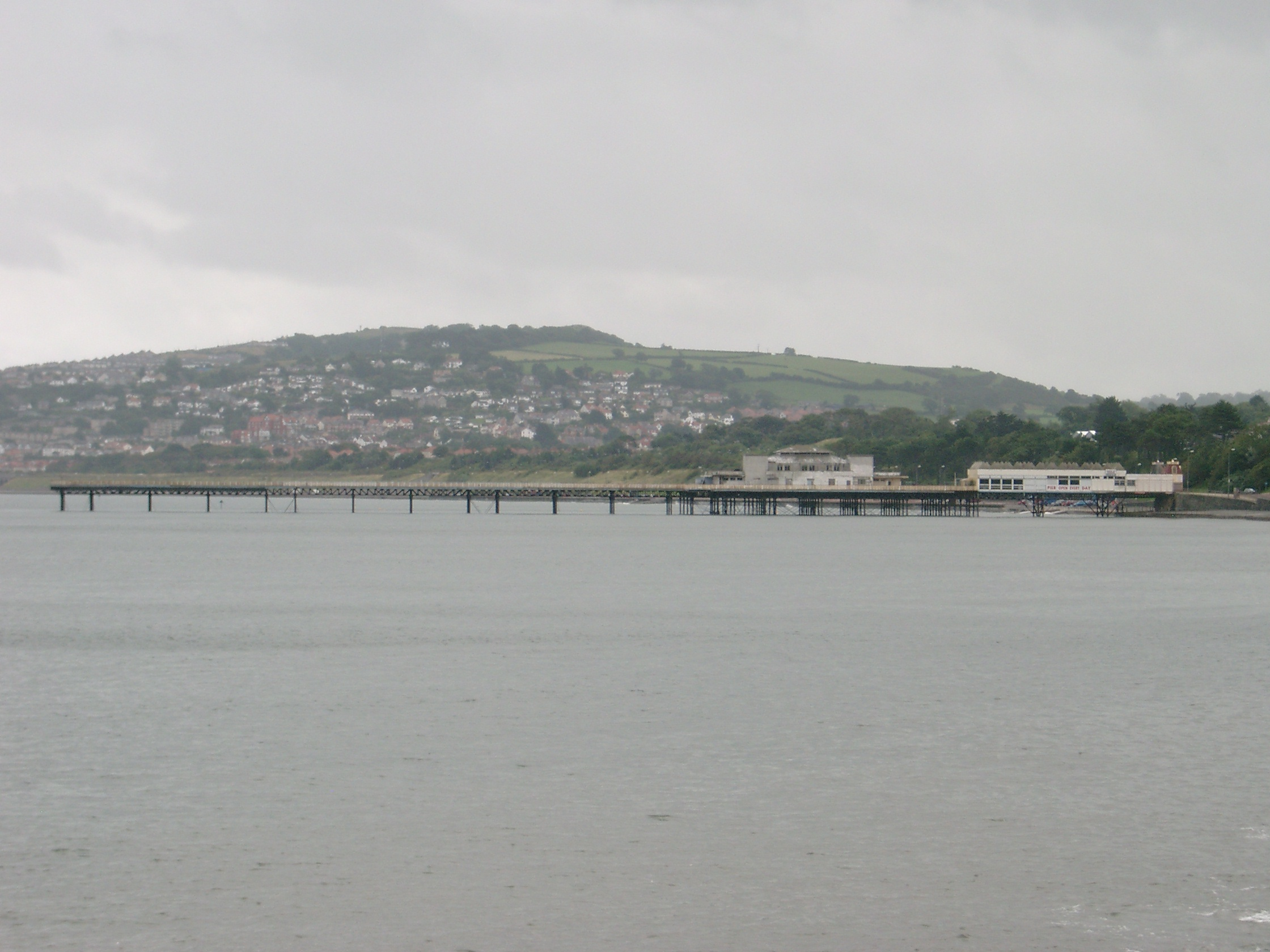 The pier at Colwyn Bay, North Wales, UK.